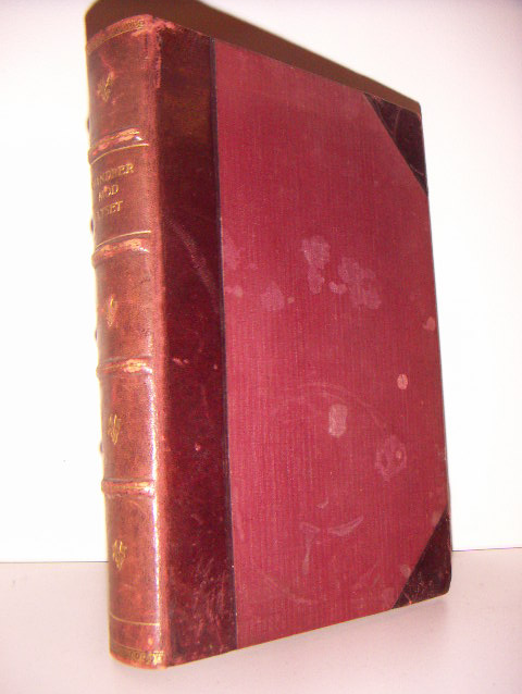 Michael Agerskov, 1870-1933, publisher of the book "Vandrer mod Lyset!" owned this copy of the book. It was give to him as a gift from the blacksmith A. Andér, who later made a model of the universe, based upon the description in VmL. I own this book - it was given to me as a present from members of the Agerskov family.